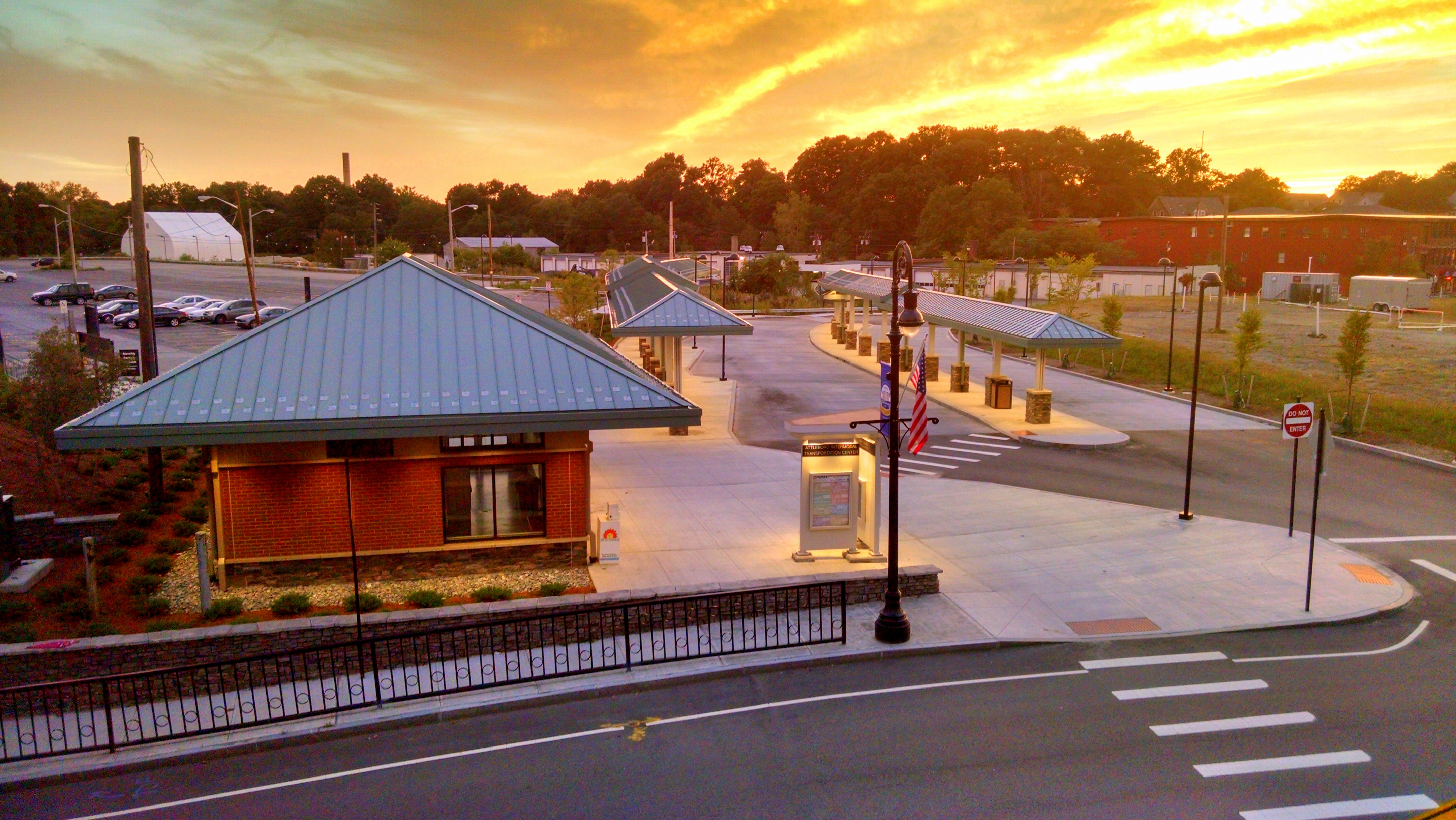 The Attleboro Intermodal Transportation Center viewed from the southbound platform in September 2014